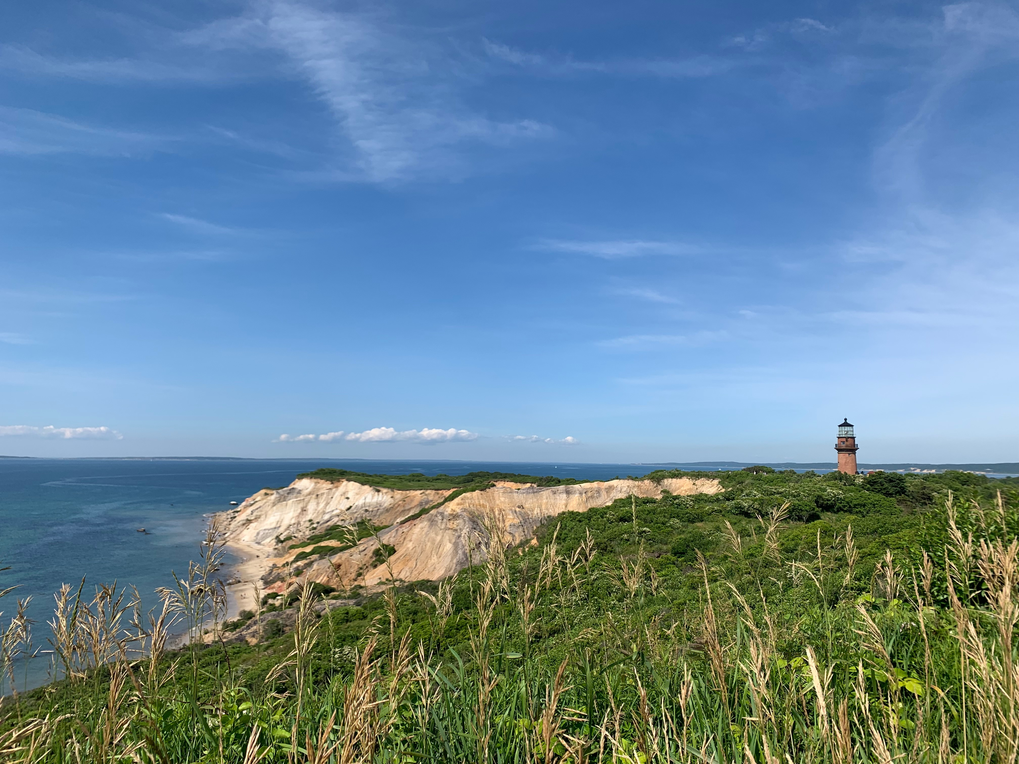 The Cliffs of Aquinnah and the Gay Head Lighthouse pictured 2019. The Aquinnah cliffs are the last point of Martha's Vineyard.